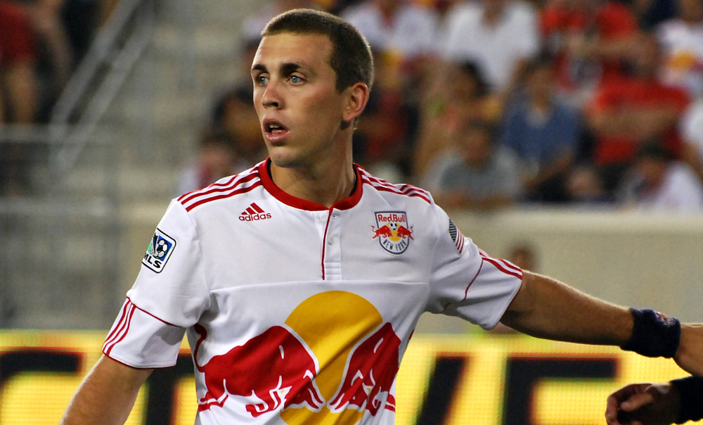 New York Red Bulls Corey Hertzog against the New England Revolution. Photo taken Jun, 6, 2010 at Red Bull Arena in Harrison, NJ.